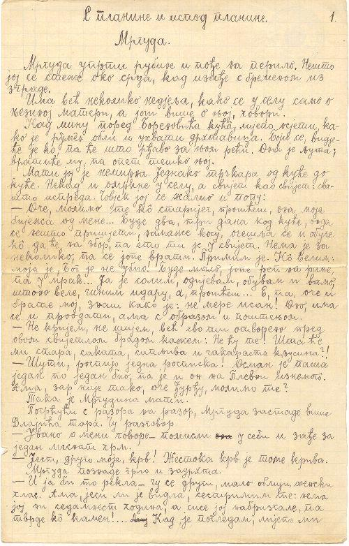 A page from the original manuscript of the short story Mrguda by Bosnian Serb writer Petar Kočić